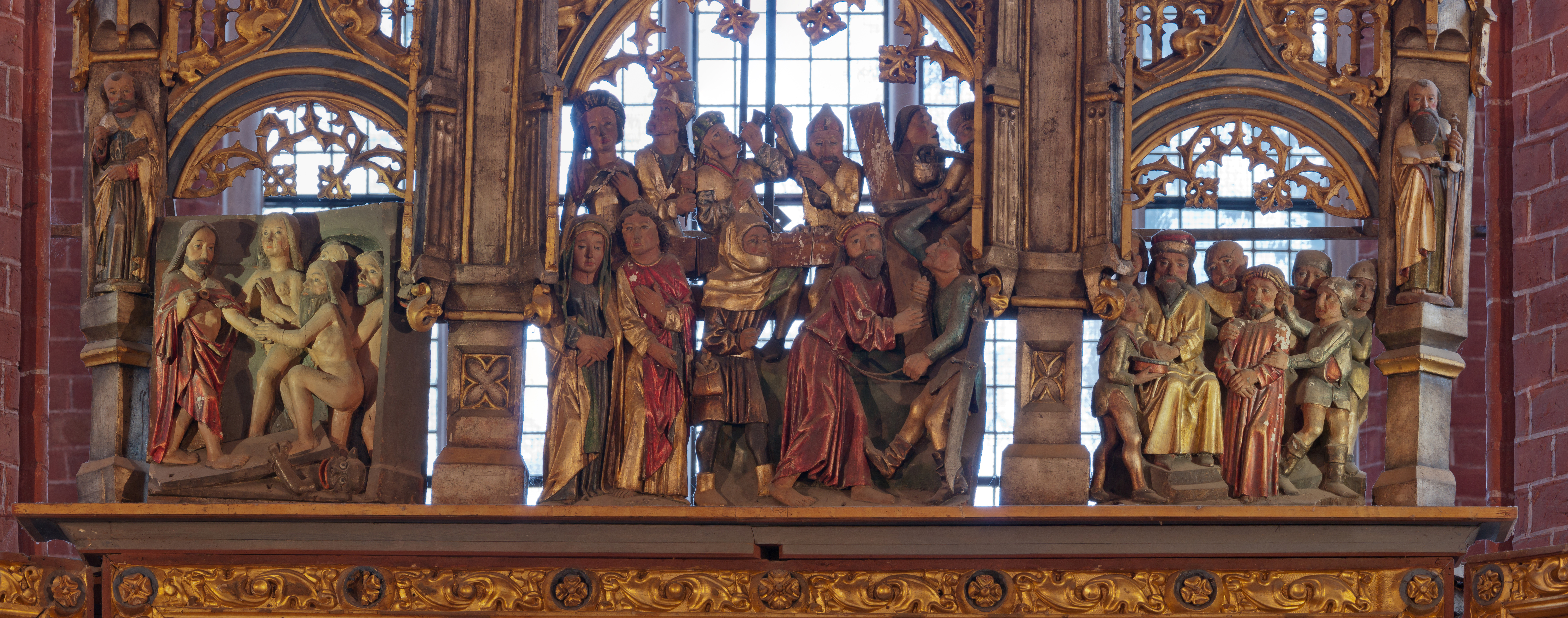 High altar ( 1474 ) of the Katharinenkirche in Brandenburg an der Havel (Germany)